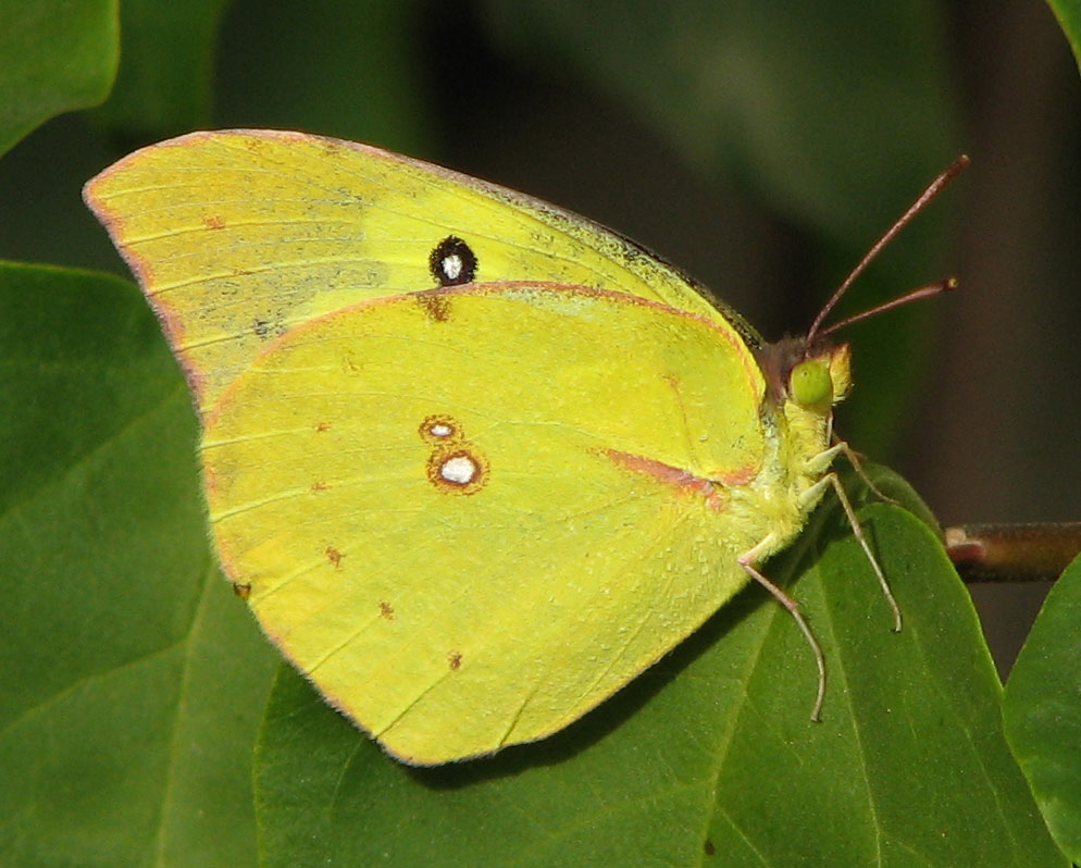 Zerene cesonia. On a Bougainvillea in my backyard in Tucson, Arizona, USA. 12 November 2007.